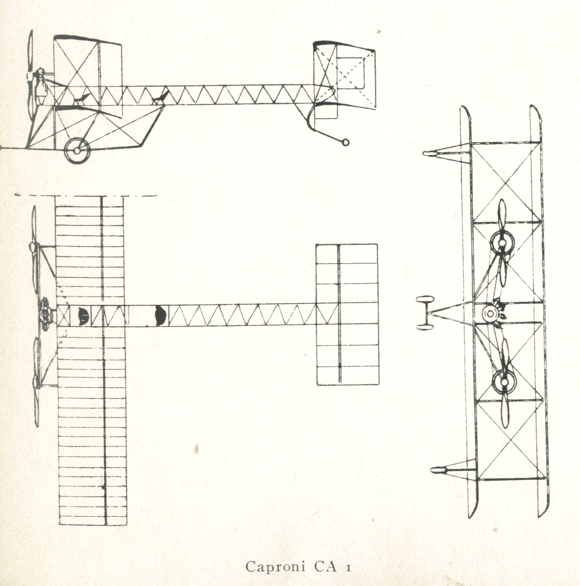 Caproni CA 1: the first airplane created by Ing. Caproni (in 1909).